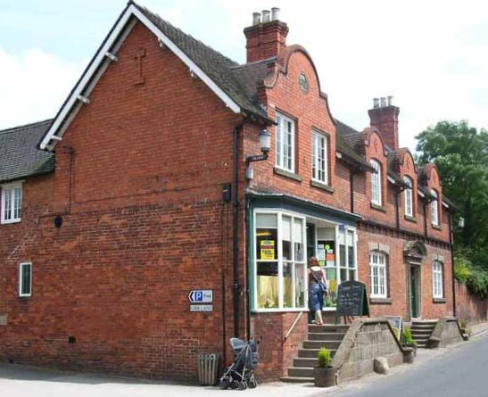 The village shop in Sudbury, Derbyshire, England.